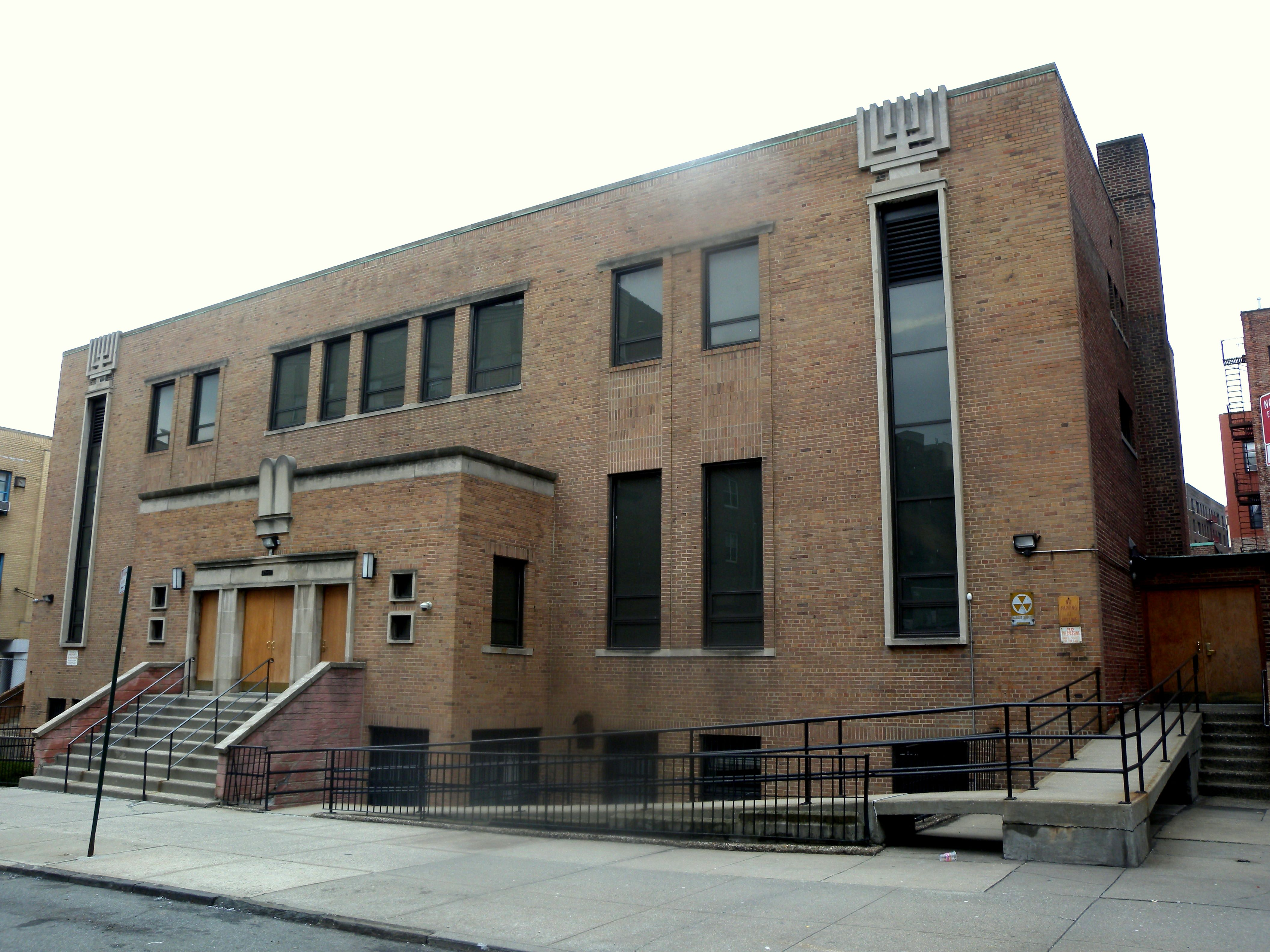 Looking northeast at Yeshiva on a cloudy midday.